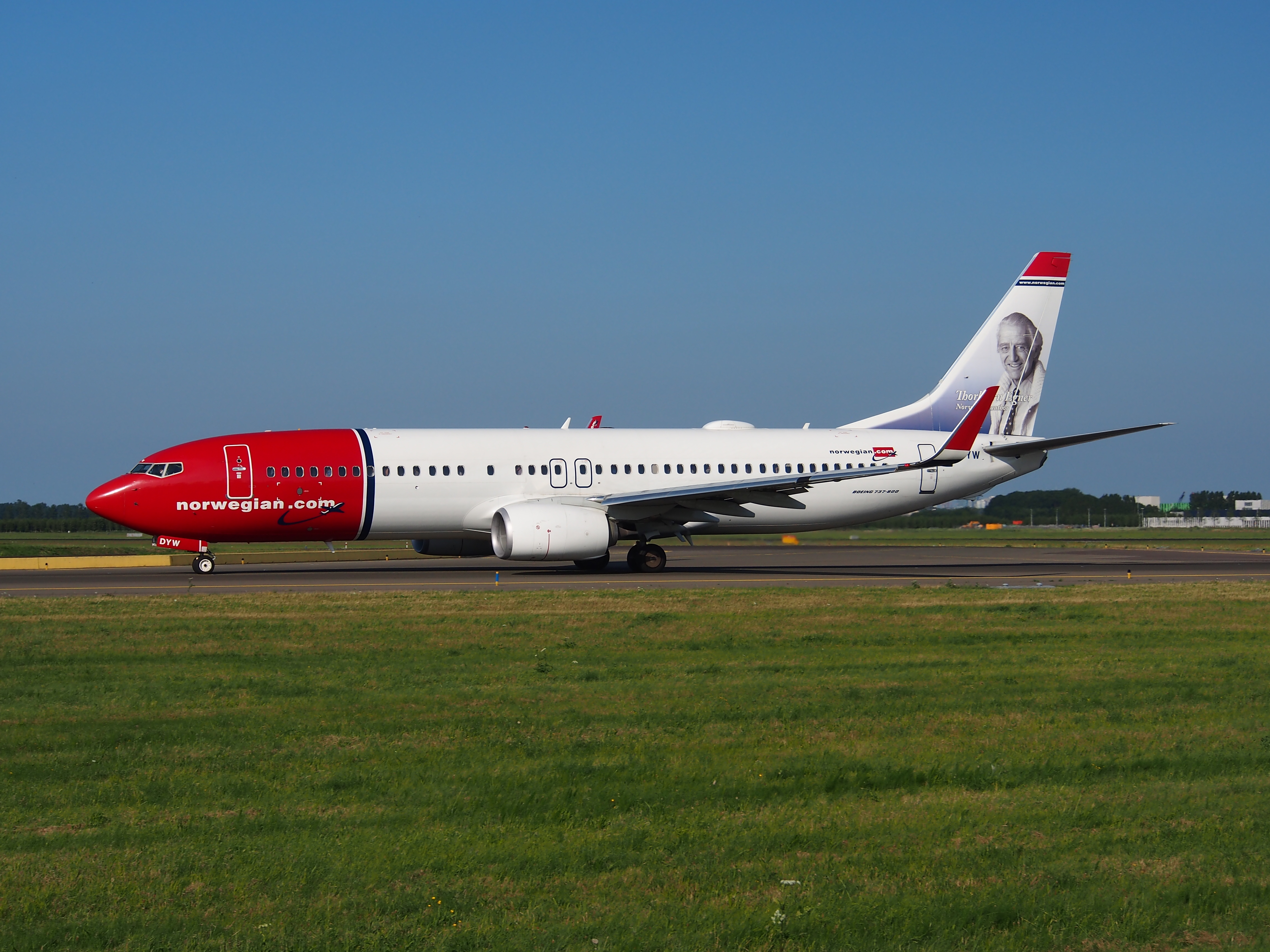 Photographed at Schiphol, Amsterdam airport, (IATA: AMS, ICAO: EHAM), the Netherlands.